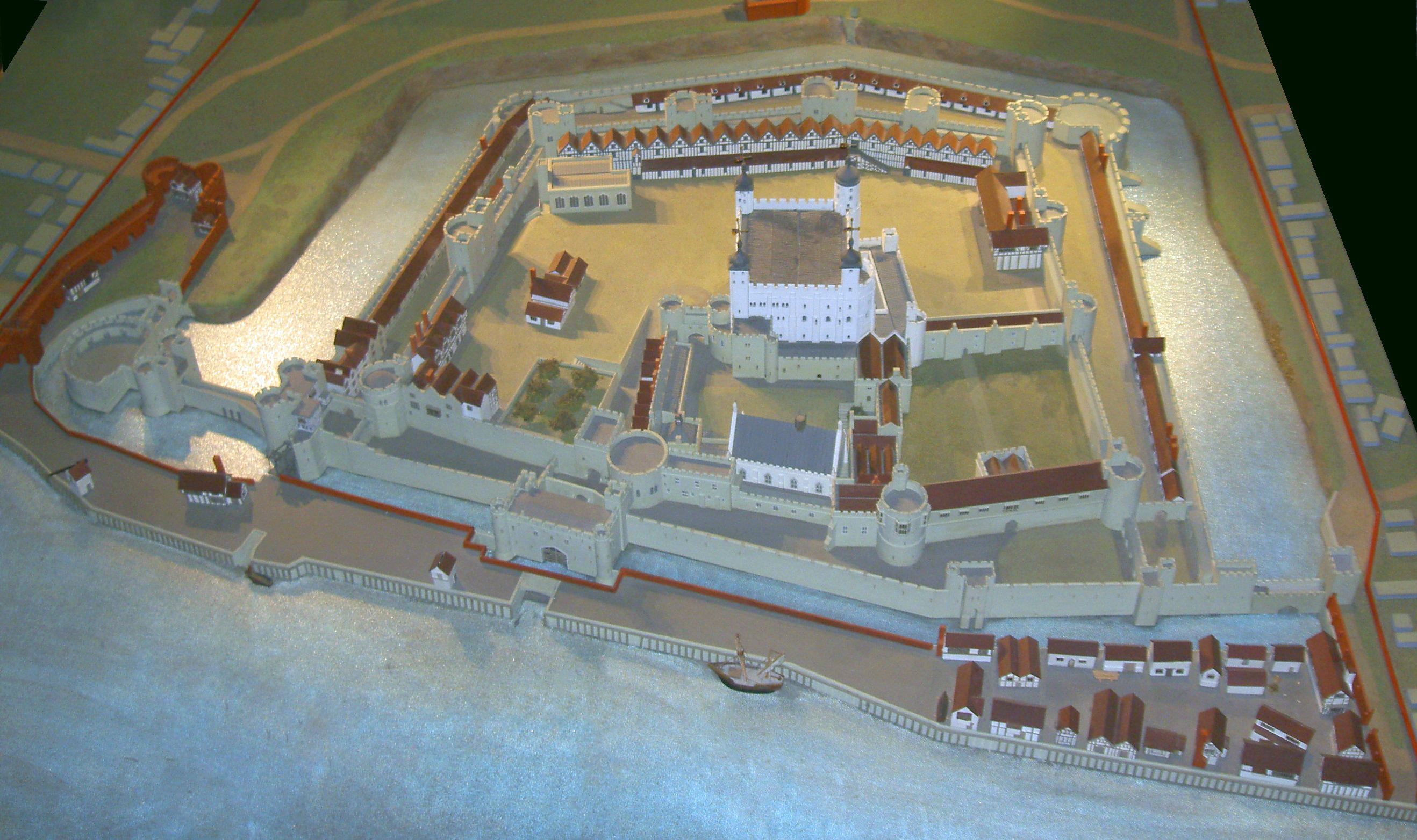 It's a scale model of the Tower of London in the Tower of London.